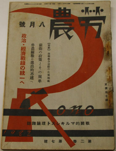 "Rohnoh", an old magazine published in 1927 - 1932.